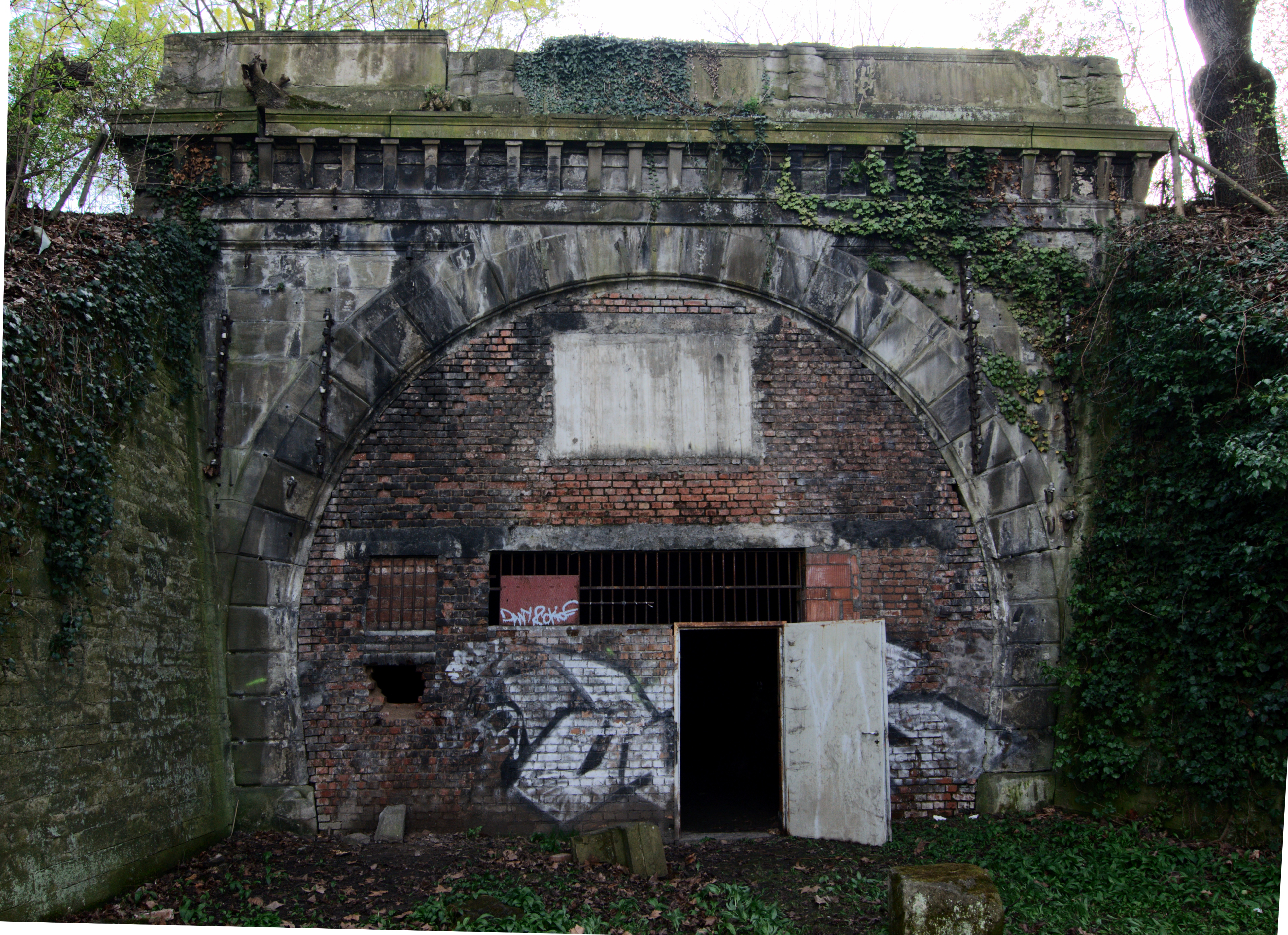 North portal of the old Rosensteintunnel in Stuttgart, April 2011